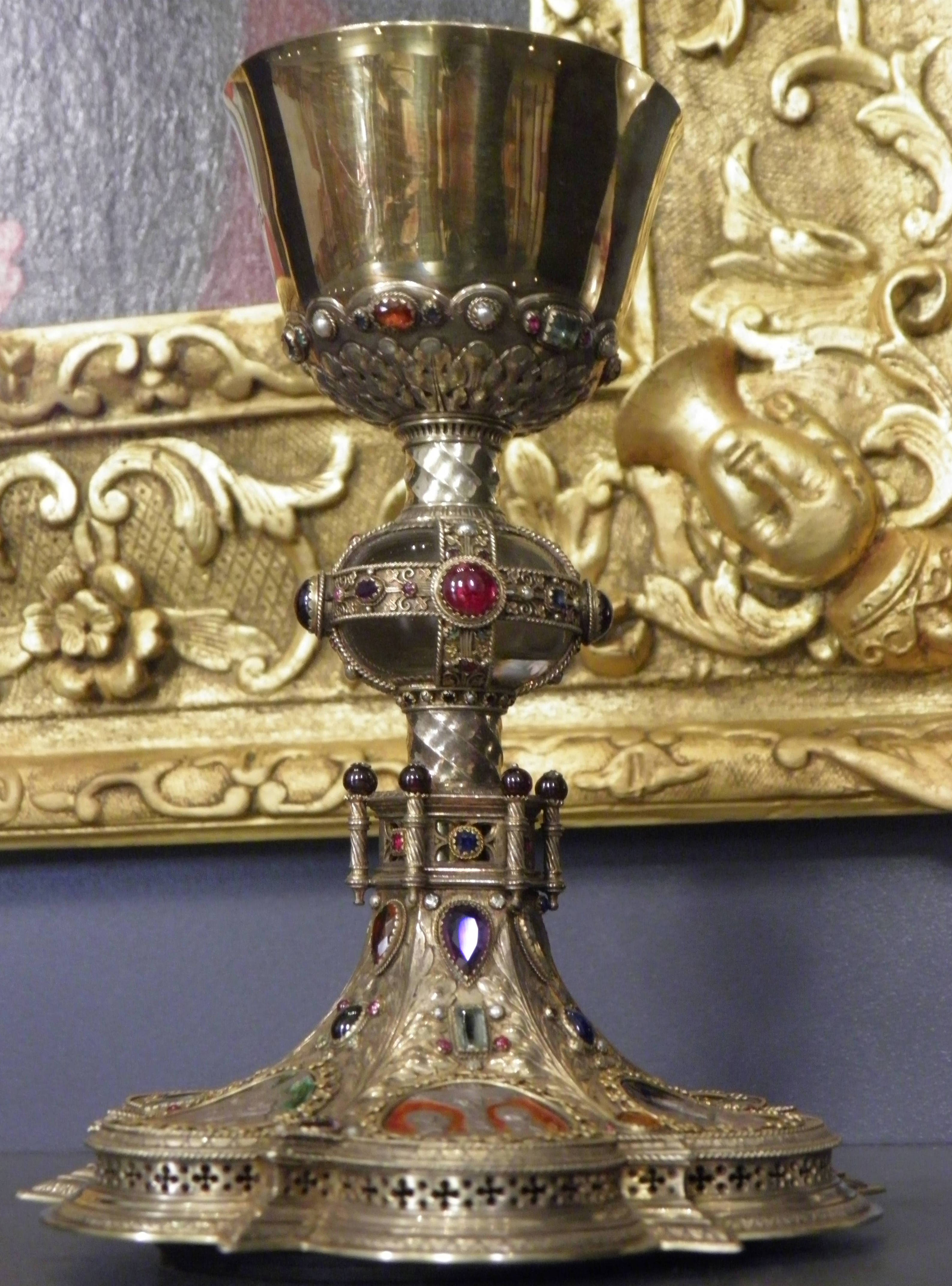 Chalice "Drummond Castle" in Saint Ronan Church (Île-Molène, Finistère, France).